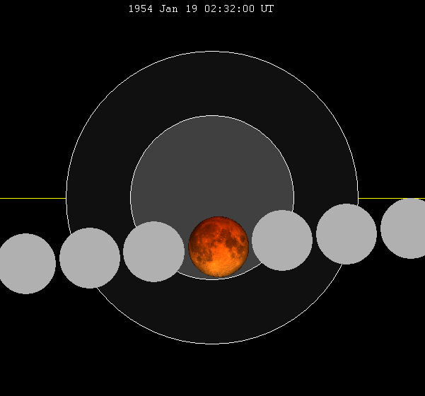 January 1954 lunar eclipse chart of moon's path through the earth's shadow. thumb